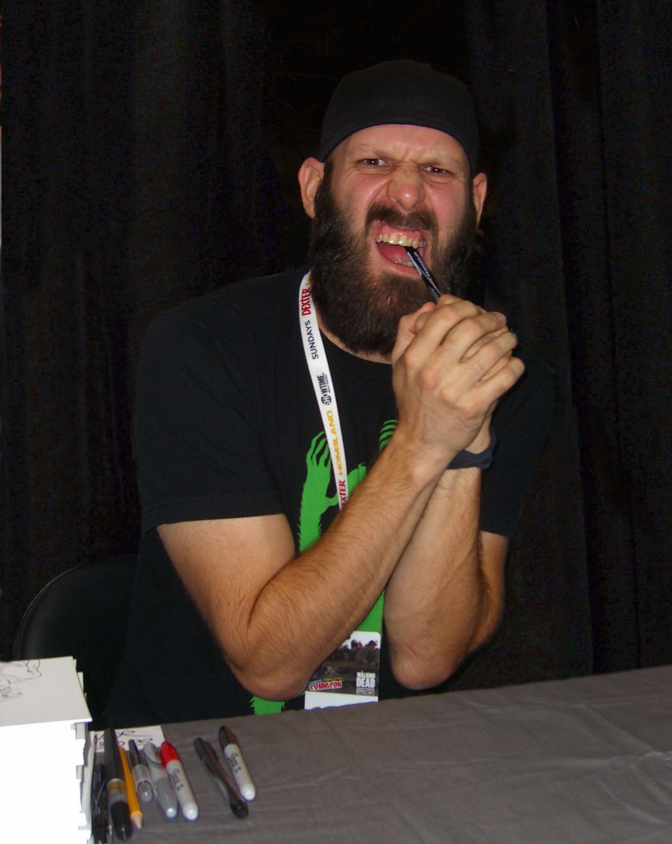 Illustrator and apparel designer Alex Pardee on Day 2 of the 2012 New York Comic Con, Friday October 12, 2012 at the Jacob K. Javits Convention Center in Manhattan. This photo was created by Luigi Novi. It is not in the public domain, and use of this file outside of the licensing terms is a copyright violation.